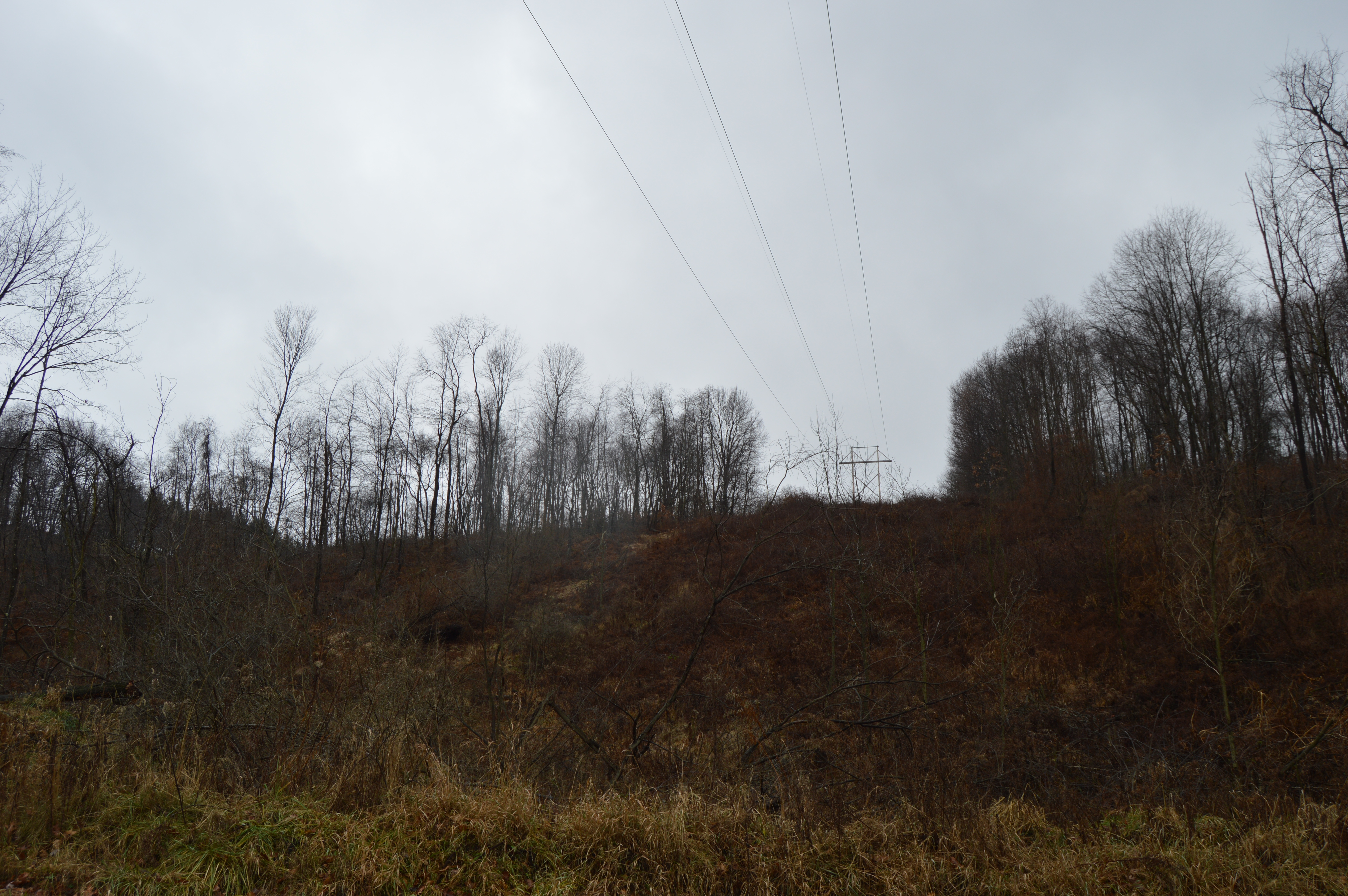 Typical scene in the heavily wooded countryside of Perry Township, Armstrong County, Pennsylvania, United States, located at the junction of Young and Claypoole Roads.